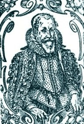 Portrait of German chemistry professor Johannes Hartmann (1568-1631)